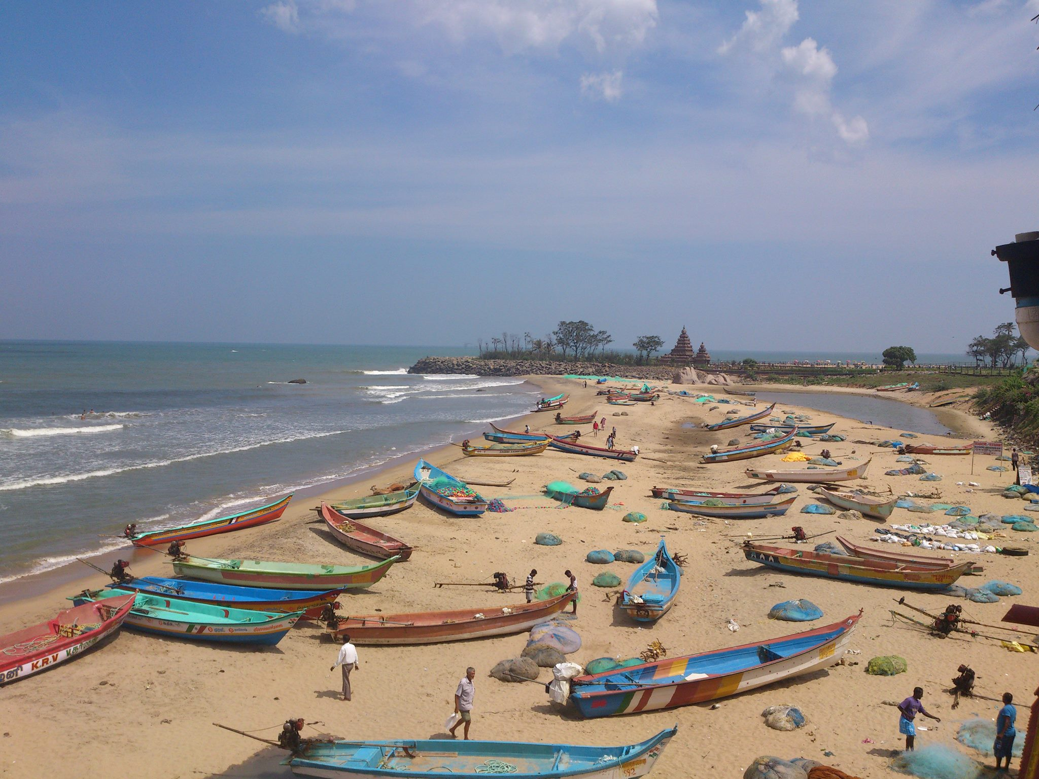 A different view of the Shore Temple with multicolored fishing boats in the foreground. Photo taken from the fishing village just north of the Temple